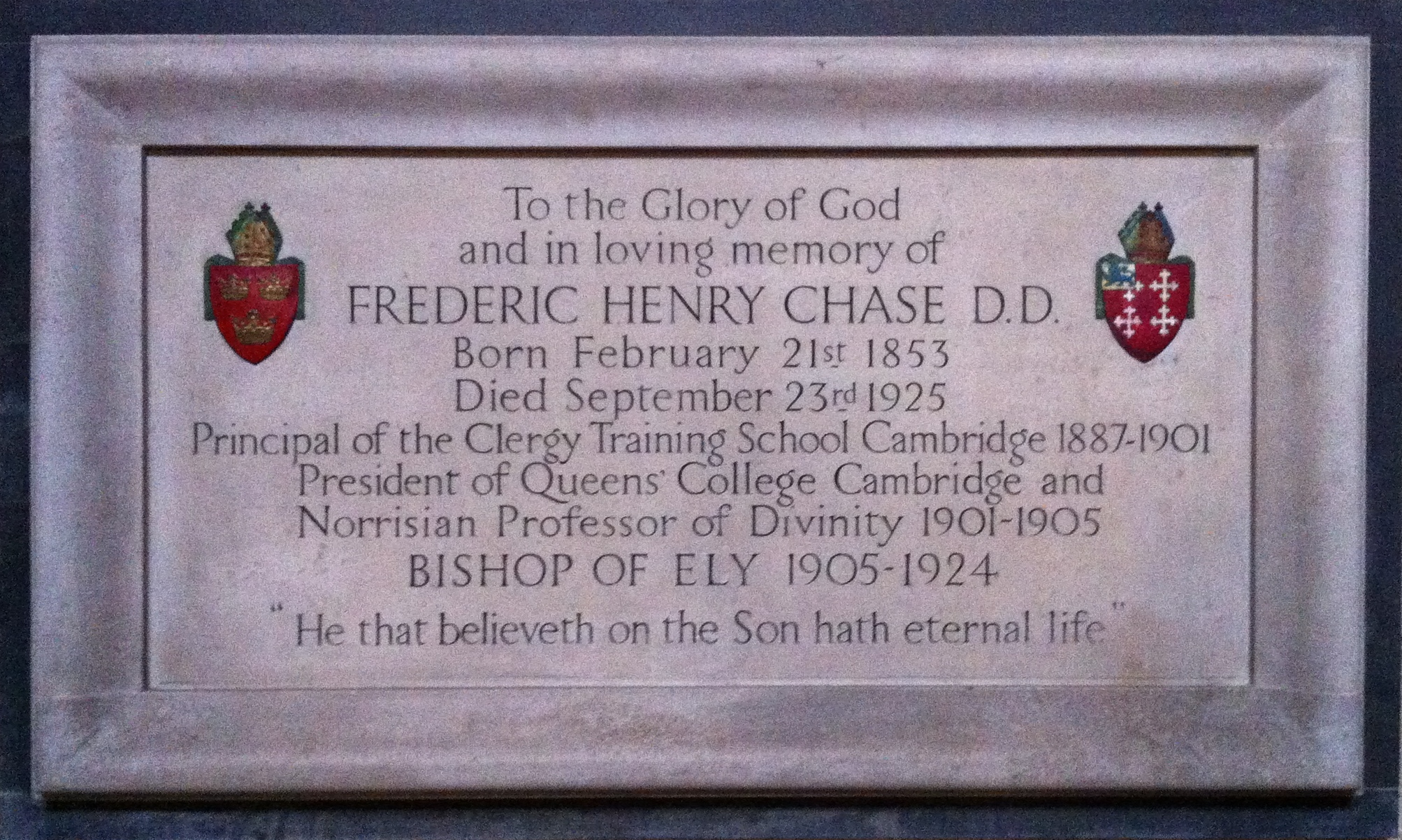 Memorial to Bishop Frederic Henry Chase in Ely Cathedral. Born 21 February 1853, died 23 September 1925.